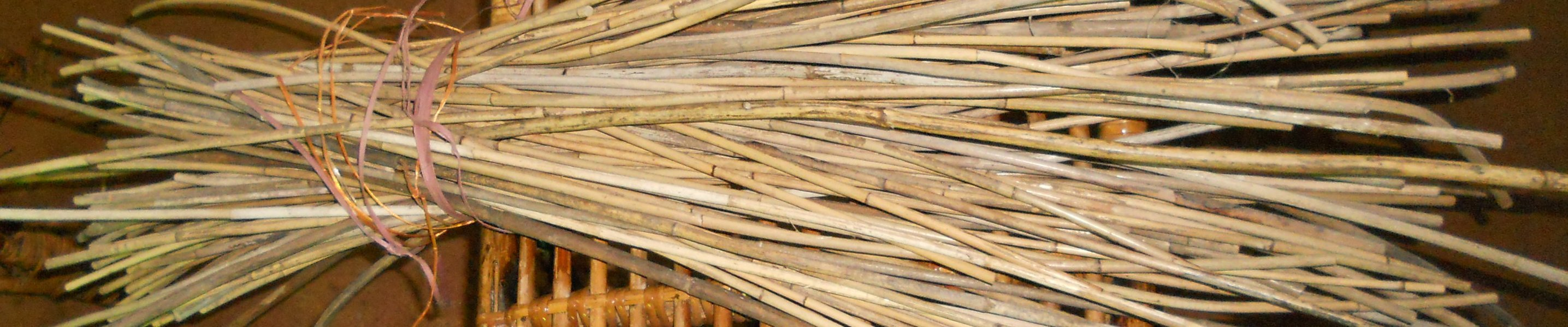 cane stick